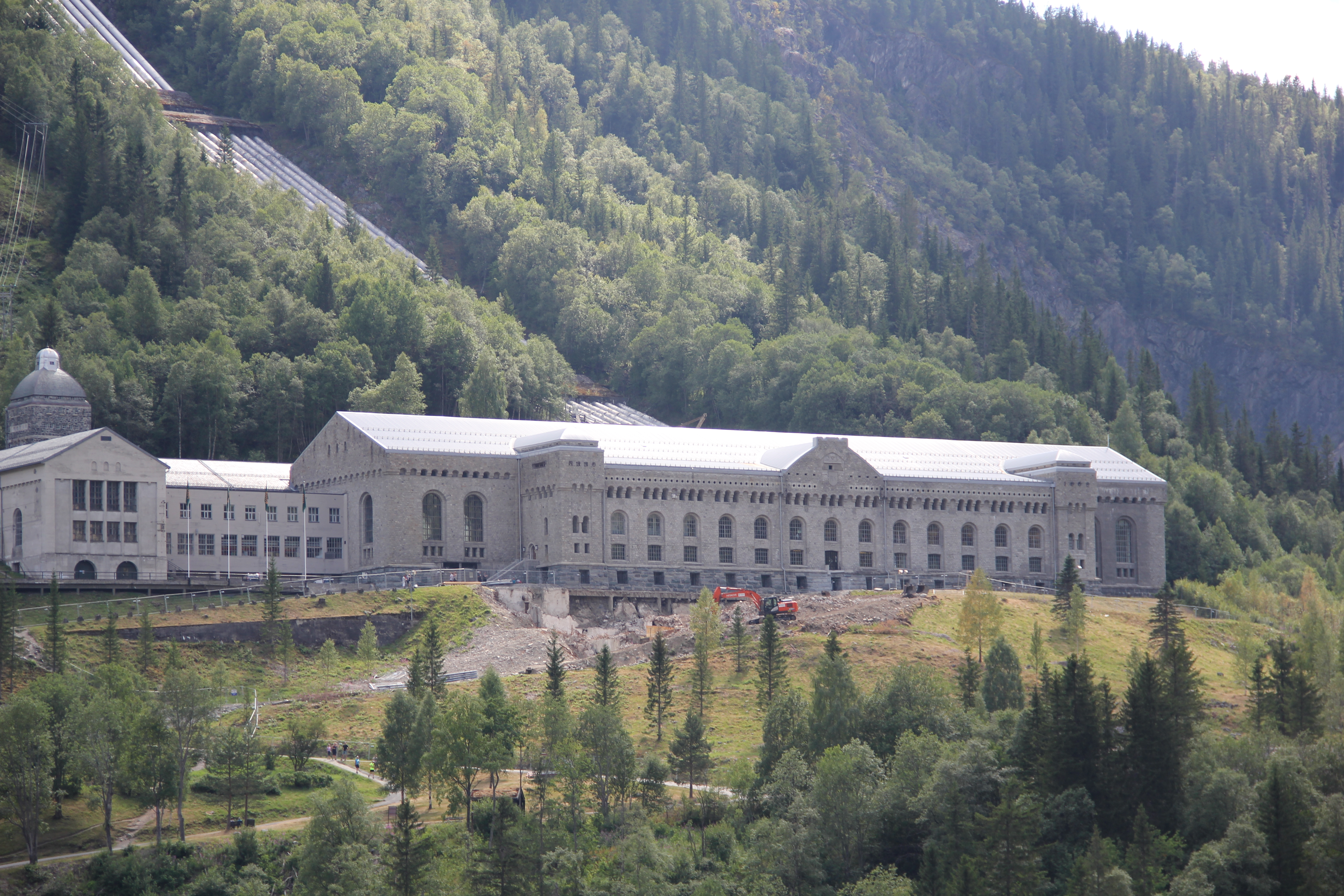 The Vemork power plant in Rjukan, Norway on July 14, 2018